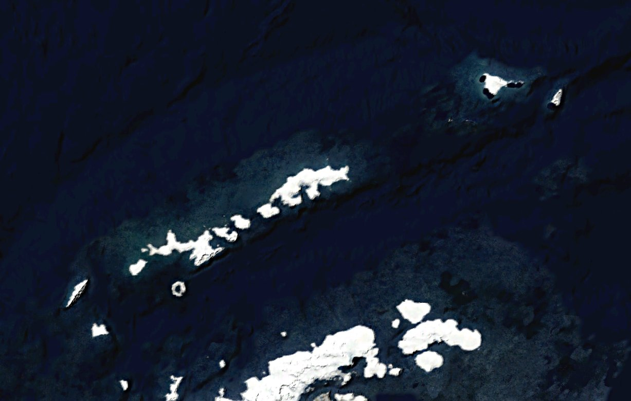 The South Shetland islands and a part of the antarctic peninsula, viewed from space in december 2004.